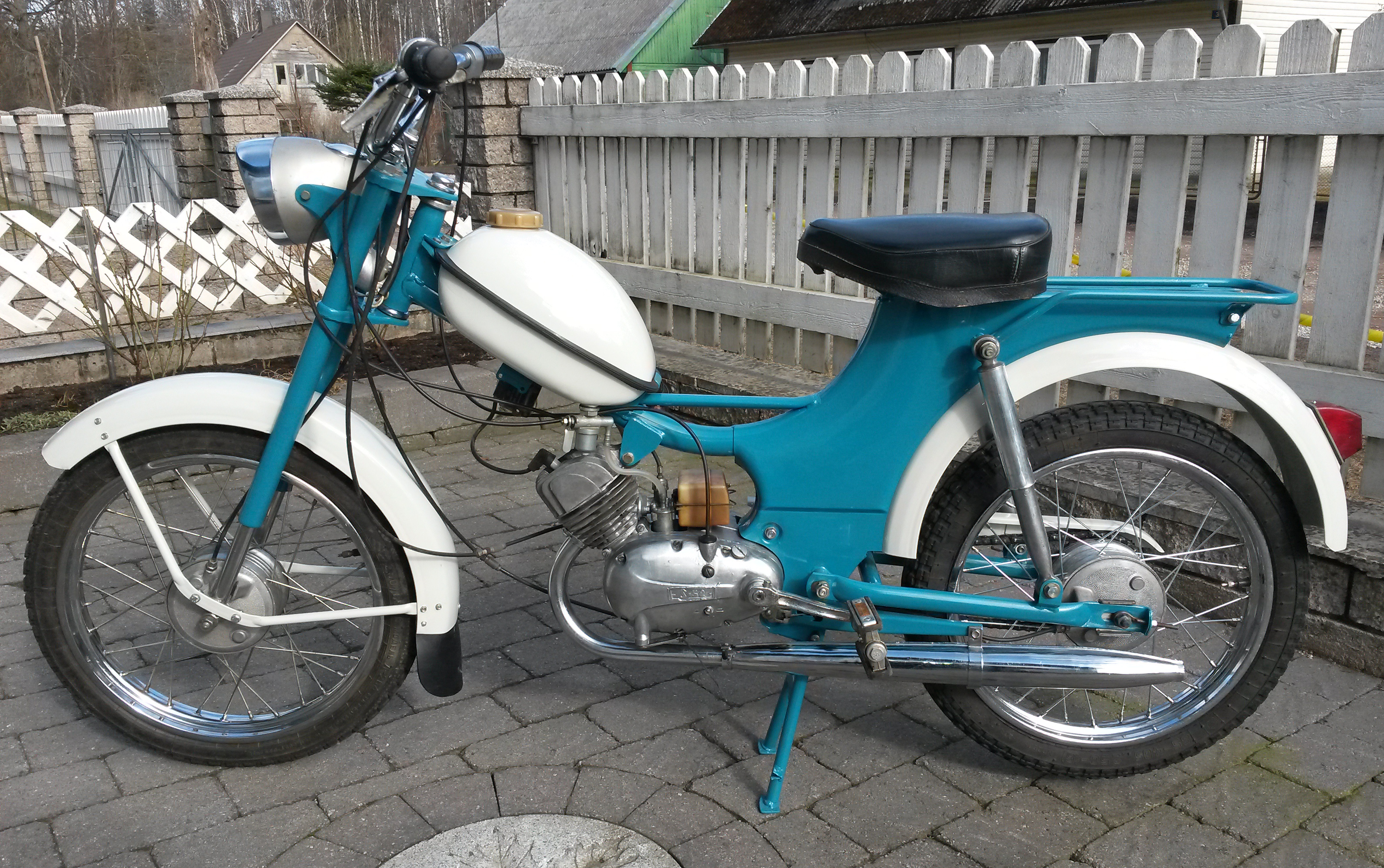 USSR moped Riga-4